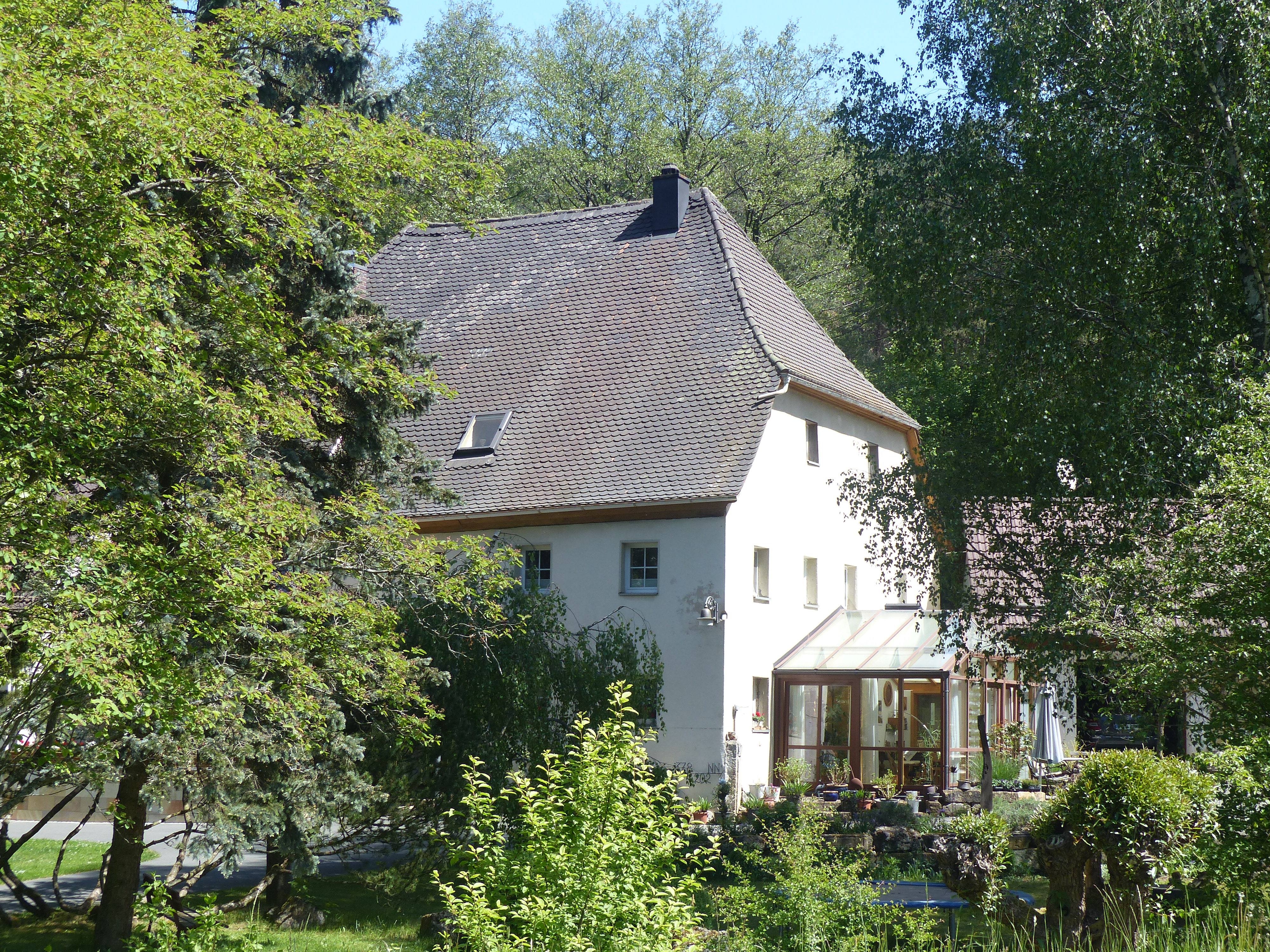 A former mill in the hamlet Schweinsmühle, a district of the municipality of Ahorntal.